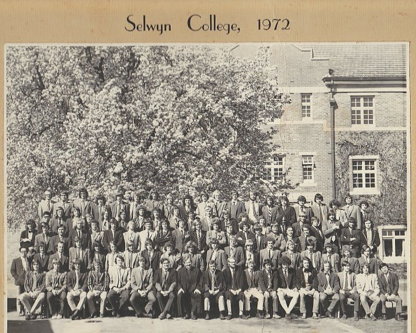 John Wright, 4th from left in row behind seated residents and Jeff Rackley NZ Boxer who competed at The Munich Olympics that year is 5th from the right, top row.